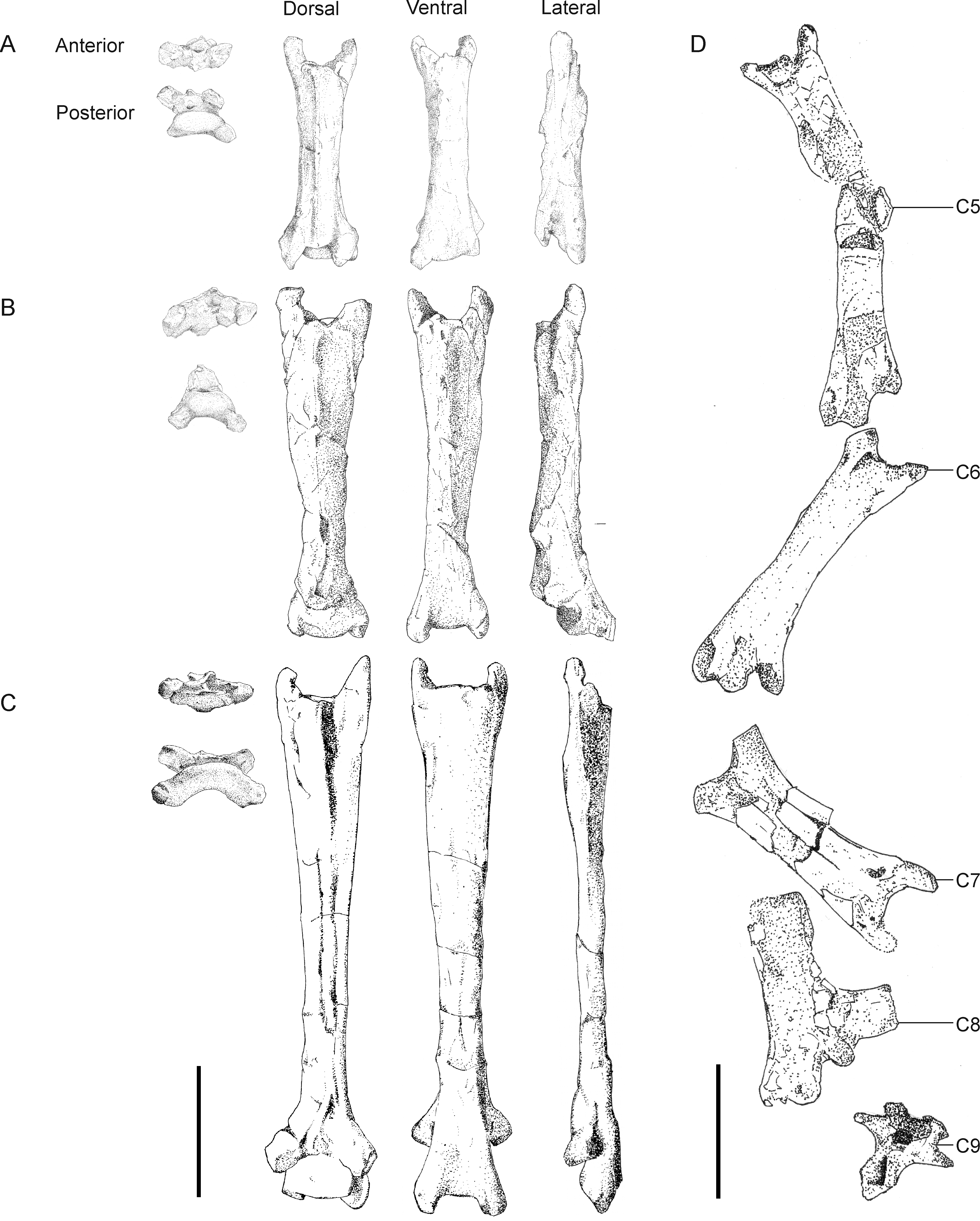 Azhdarchid cervical vertebrae. A–C, Quetzalcoatlus cervical vertebrae 3–5; D, Phosphatodraco cervical series in situ (after [47]). Scale bars represent 100 mm.